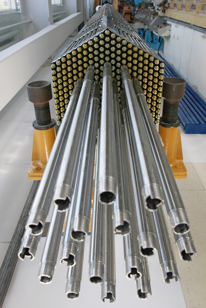 “Produce of the Novosibirsk Chemical Concentrate Plant”. Fuel assembly for NPPs, produce of the Novosibirsk Chemical Concentrate Plant.